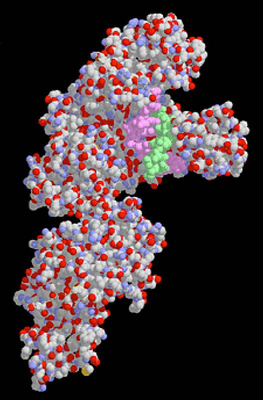 Molecular Structure of E. coli DNA Polymerase I.